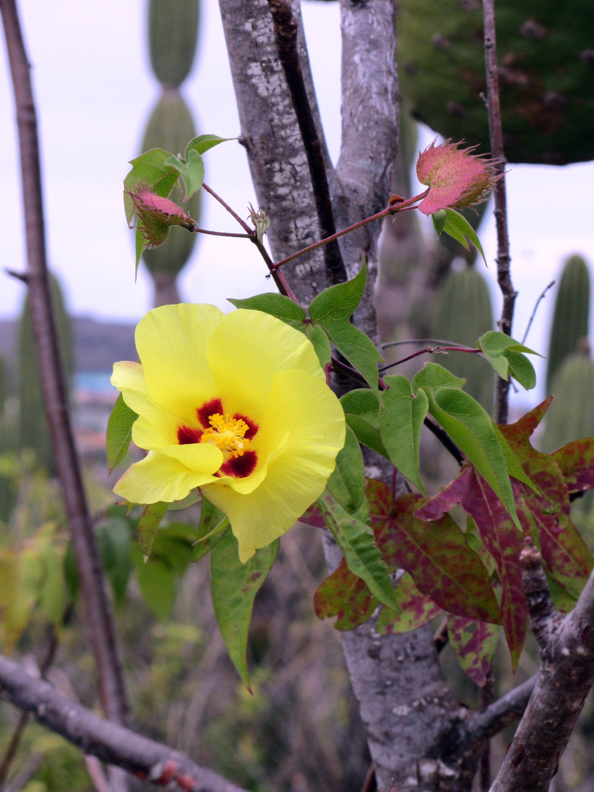 Darwin's cotton (Gossypium darwinii)